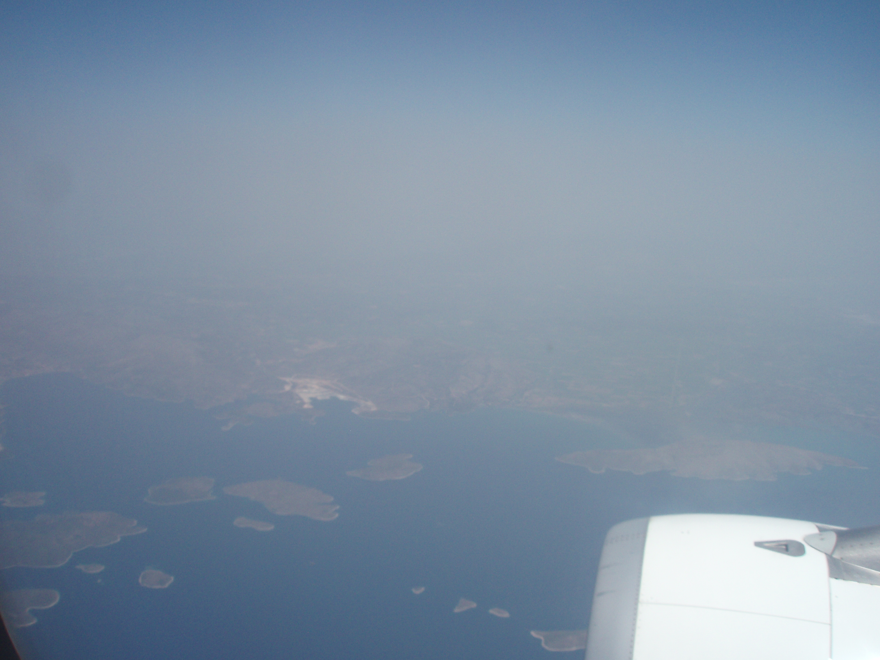 View on Astakos harbor and Northern Echinades Islands, Etolia-Acarnania (Etoloacarnania), Greece. Picture was taken from an aircraft flying northern direction.